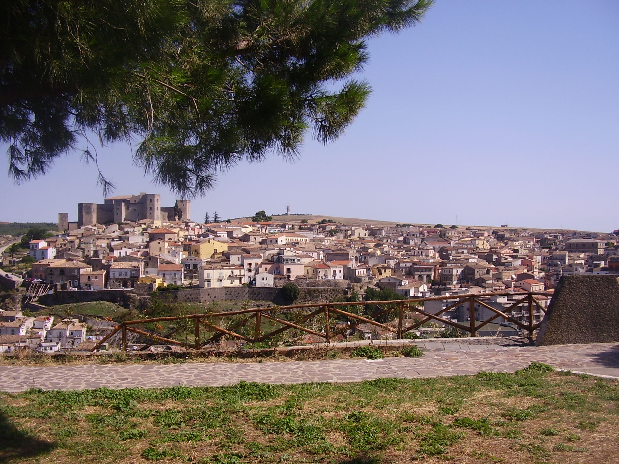 melfi, View from Cappuccini's hill